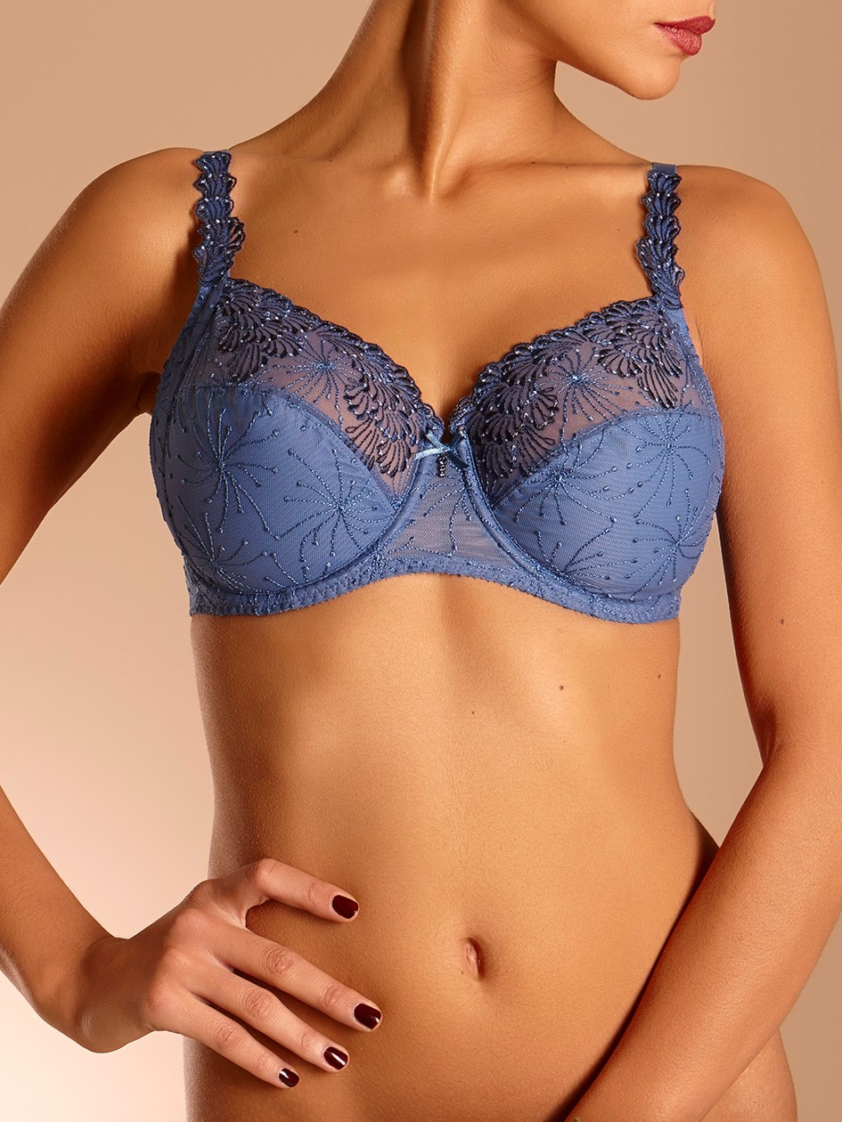 Blue Chantelle bra